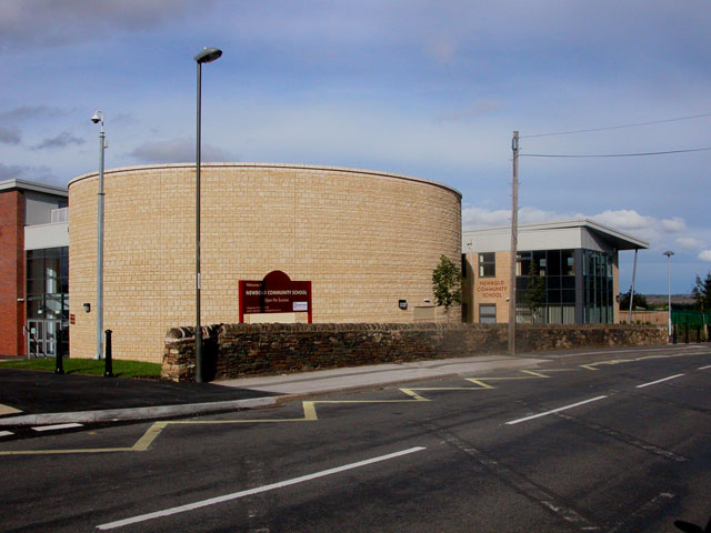 Newbold Community School This new school was only opened this year (2006) and replaced 2 older schools which have been demolished.